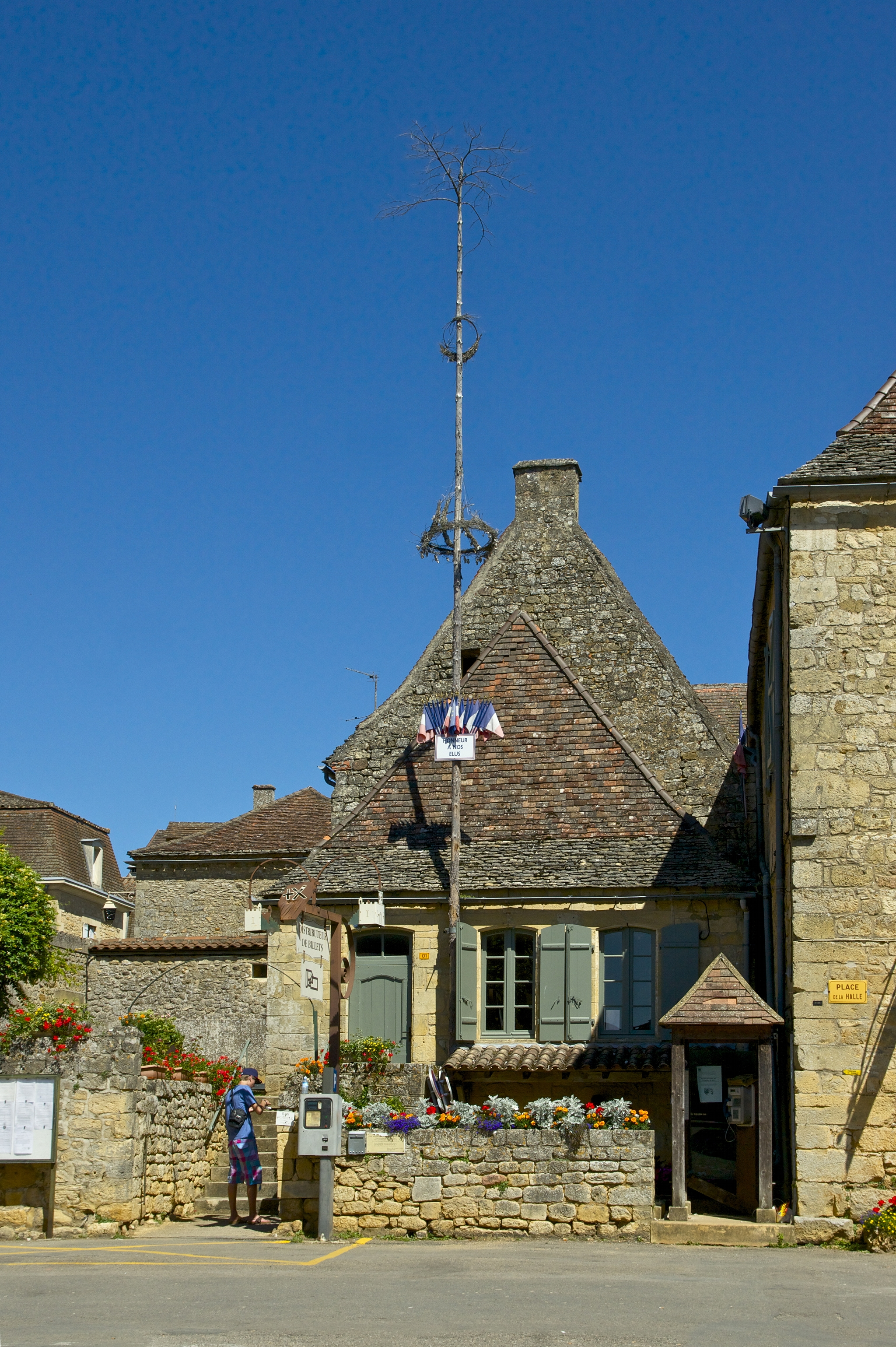 A maypole in Domme, Dordogne, France.